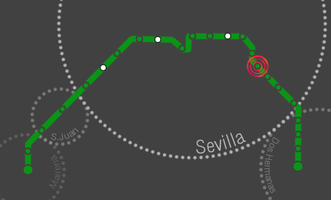 Location